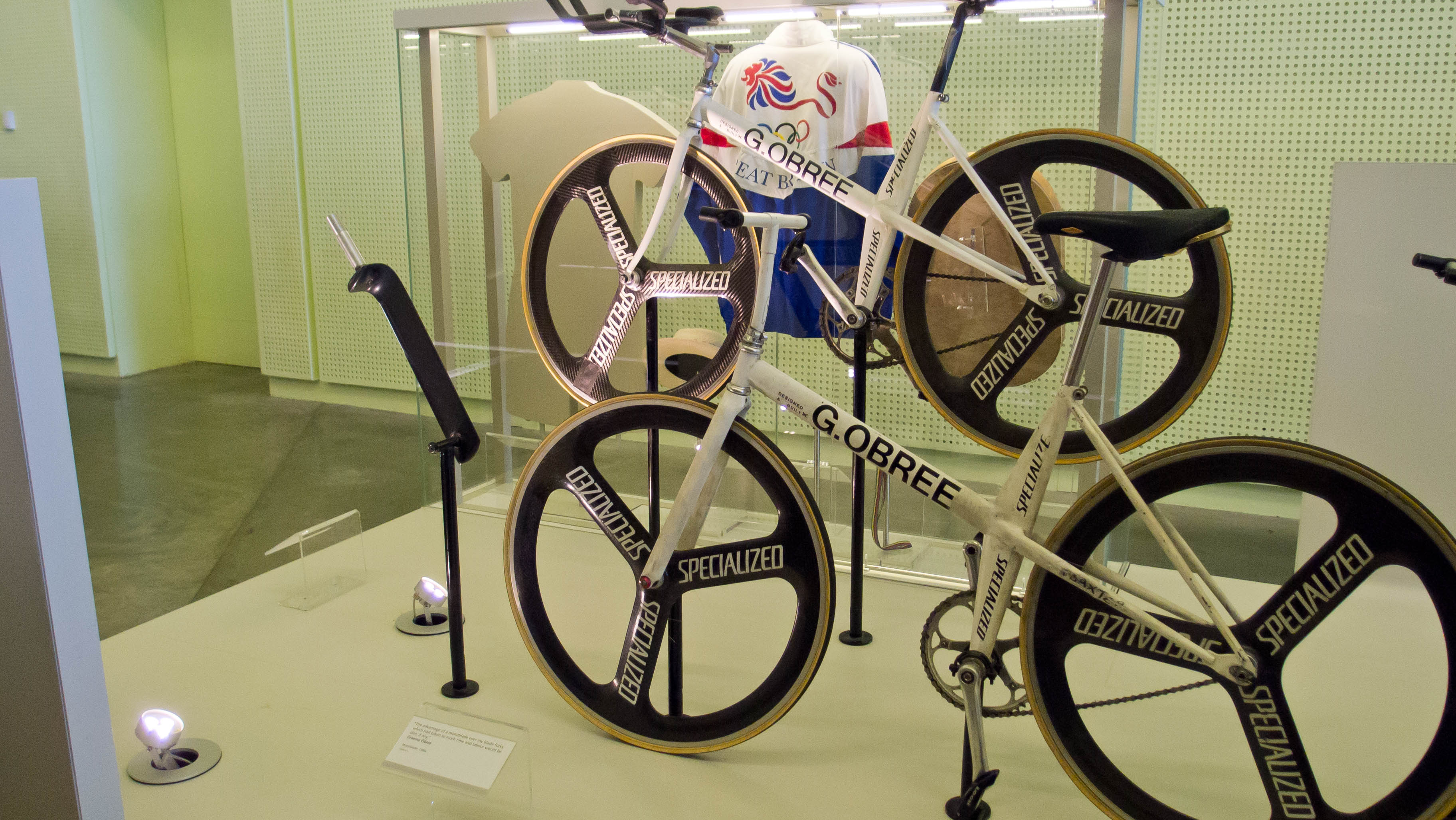 Graeme Obree display at the Riverside Museum, Glasgow